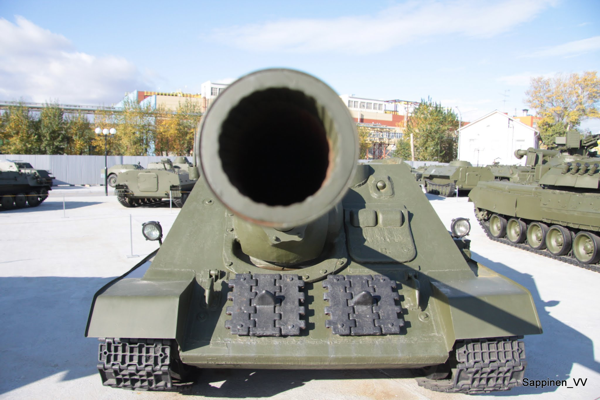 Verkhnyaya Pyshma Tank Museum 2012